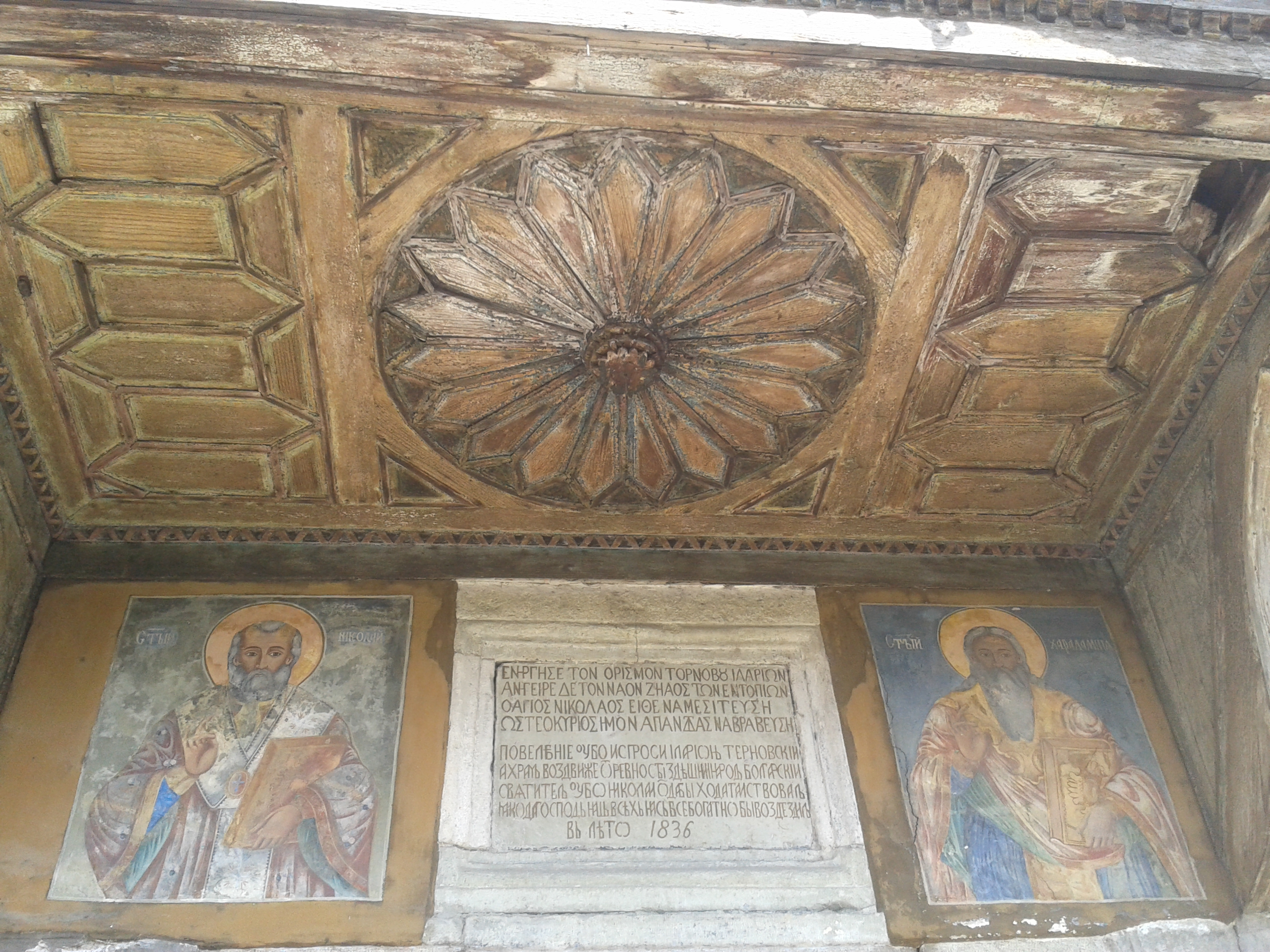 Saint Nicholas Church in Tarnovo - Inscription